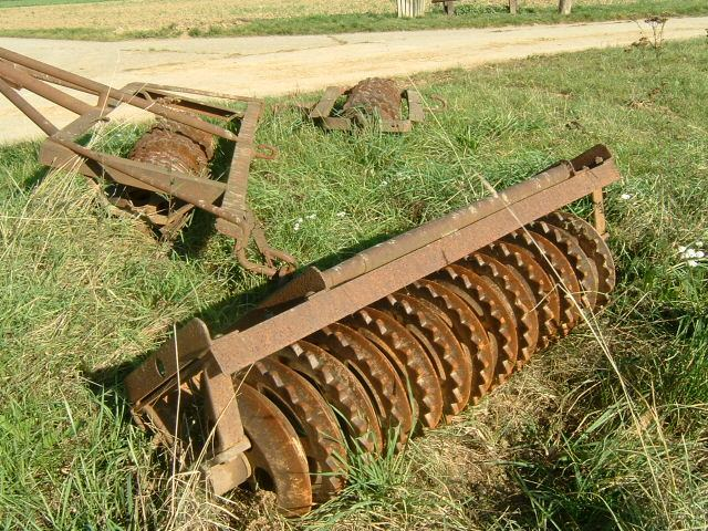 A three-part Cambridge roller